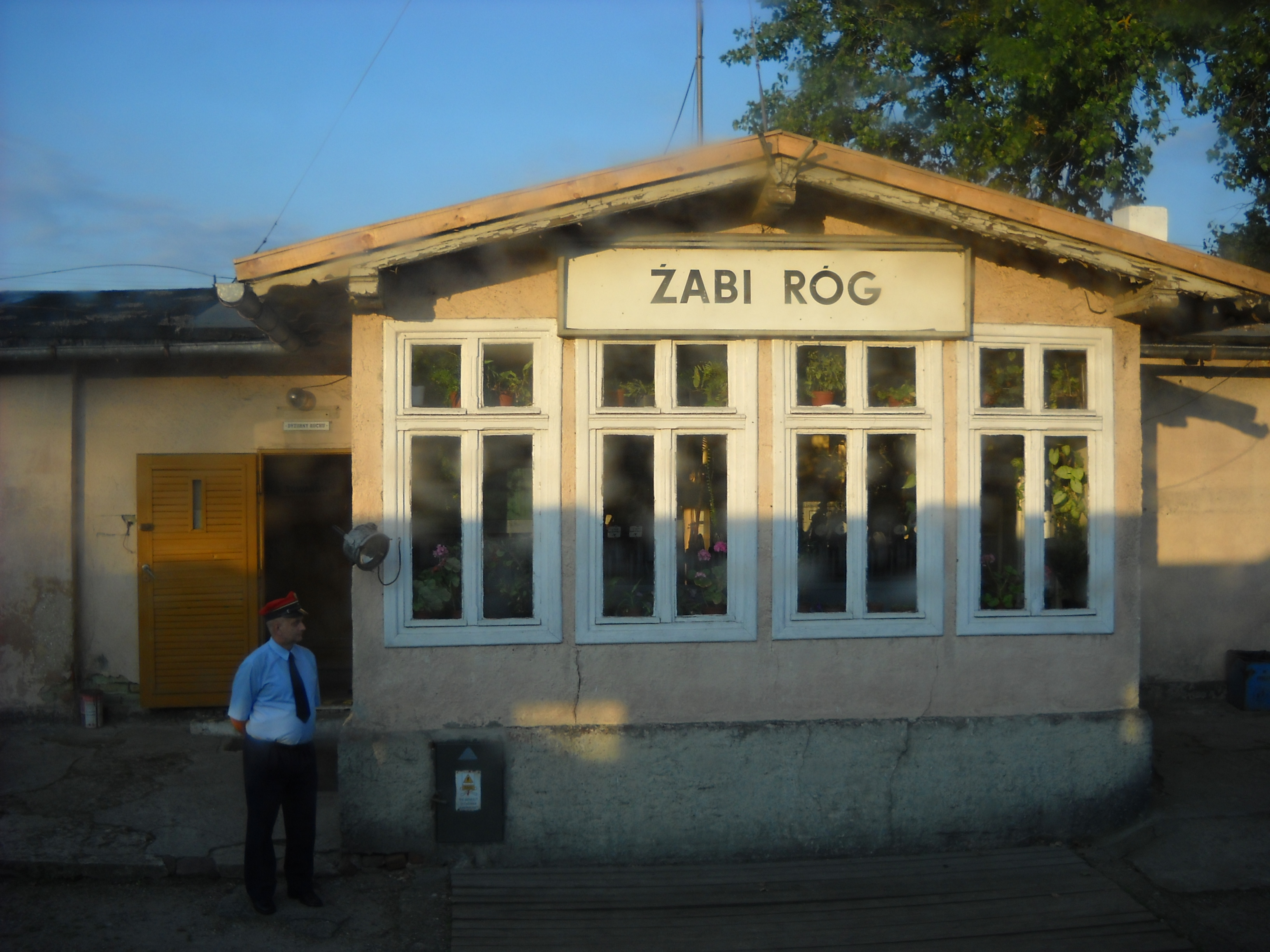 Żabi Róg railway station